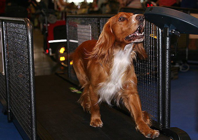 dog while walking on the treadmill